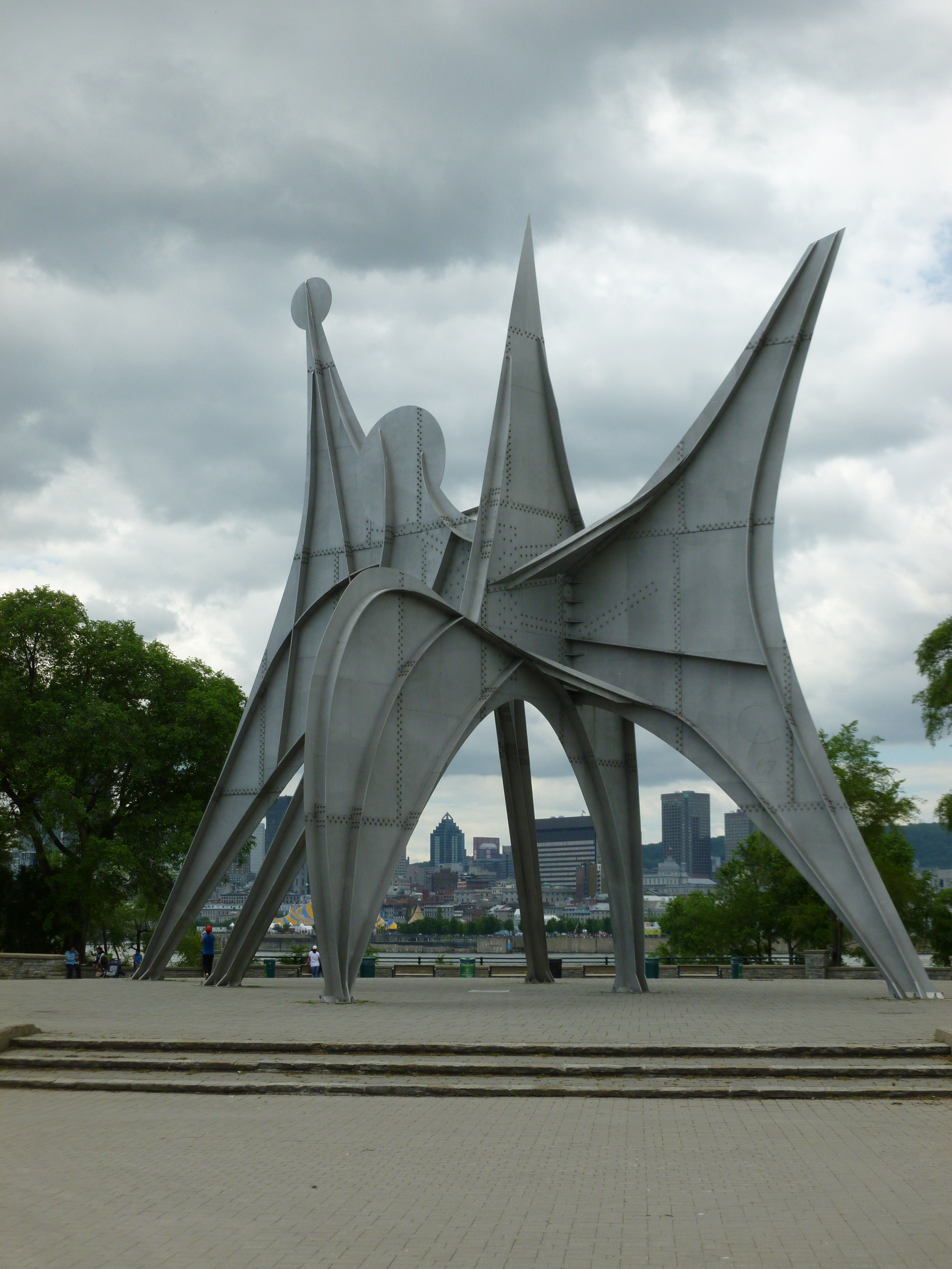 L'Homme, sculpture by Alexander Calder (1967), in Parc Jean Drapeau, Montreal, Quebec, Canada